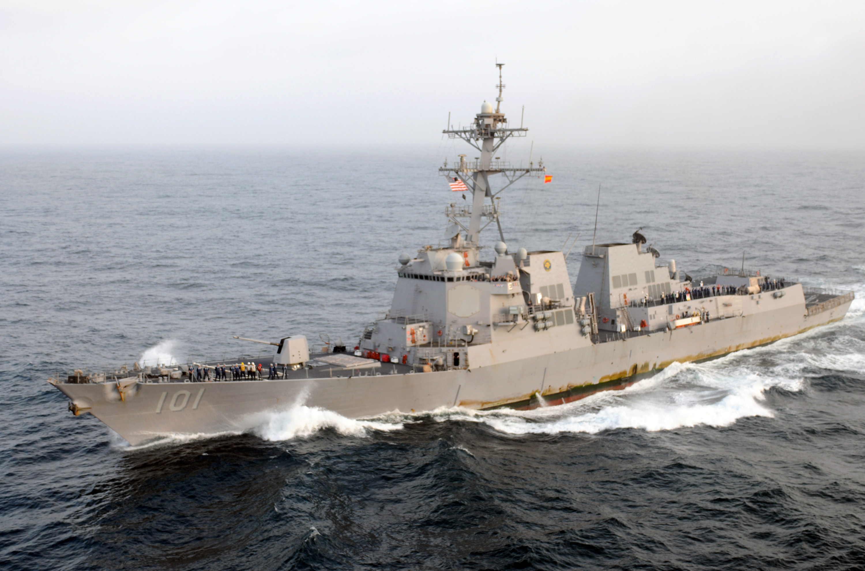 GULF OF OMAN (Sept. 6, 2009) The Arleigh Burke-class guided-missile destroyer USS Gridley (DDG 101) approaches the aircraft carrier USS Ronald Reagan (CVN 76) for a fueling at sea, an evolution used in routine and emergency situations to fuel ships in the strike group. The Ronald Reagan Carrier Strike Group is deployed to the U.S. 5th Fleet area of responsibility. (U.S. Navy photo by Mass Communication Specialist 3rd Class Chelsea Kennedy/Released)